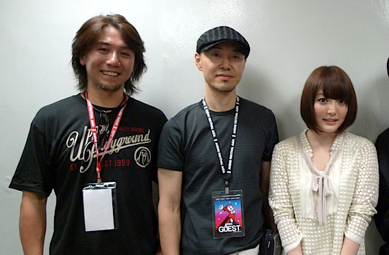 Takanori Aki, Chief Executive Officer of the Good Smile Company, Inc., Takaki Kosaka, President of the Nitroplus Co., Ltd., and Kana Hanazawa, voice actress of the Office Osawa Co., Ltd., attended the Anime Festival Asia at the Suntec Singapore Convention and Exhibition Centre in Singapore on November 14, 2010.